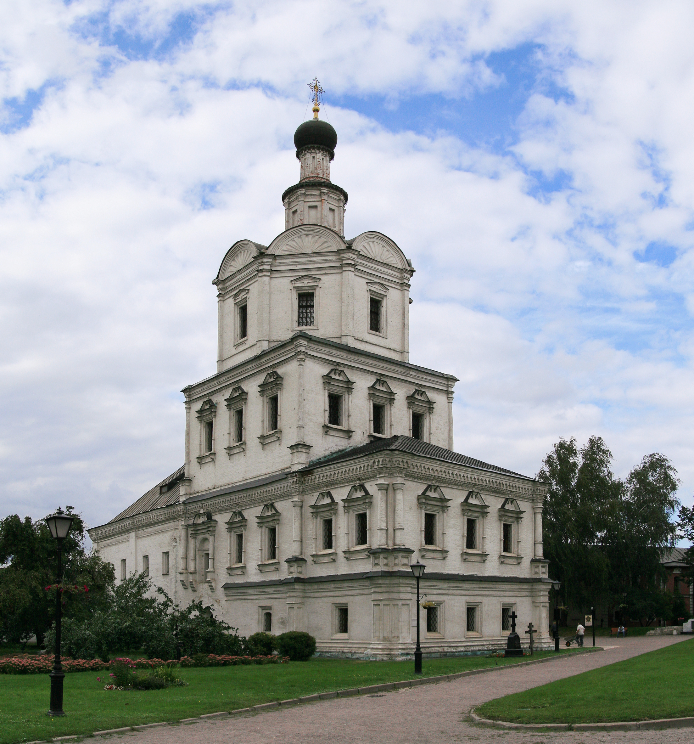 Church of Saint Michael, 1691-1694, Andronikov Monastery, Moscow